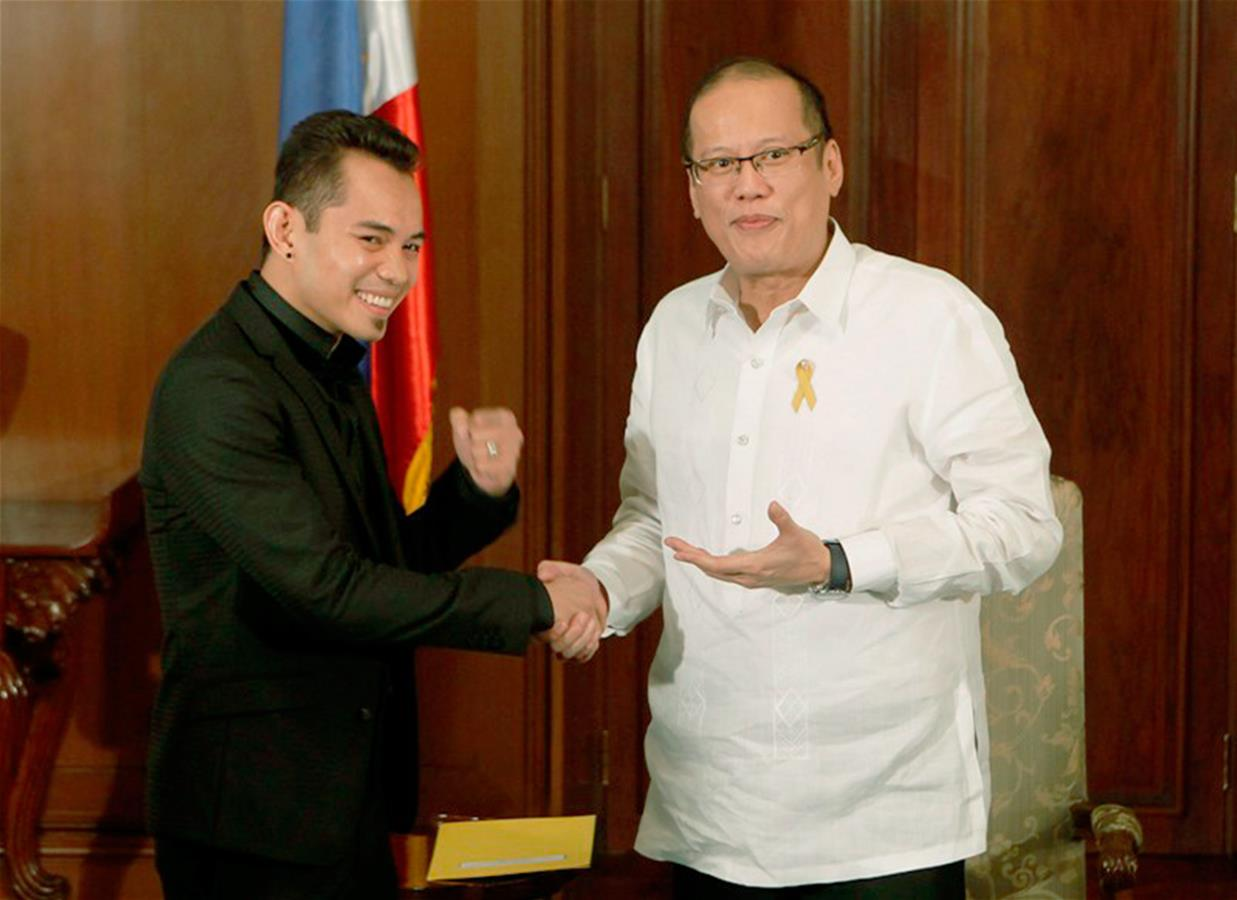 President Benigno S. Aquino III congratulates the Philippines’ pride, the reigning World Boxing Organization (WBO) Super Bantamweight Champion Nonito “The Filipino Flash” Donaire, Jr. during the courtesy call at the Music Room of the Malacañan Palace on Thursday (December 20, 2012).